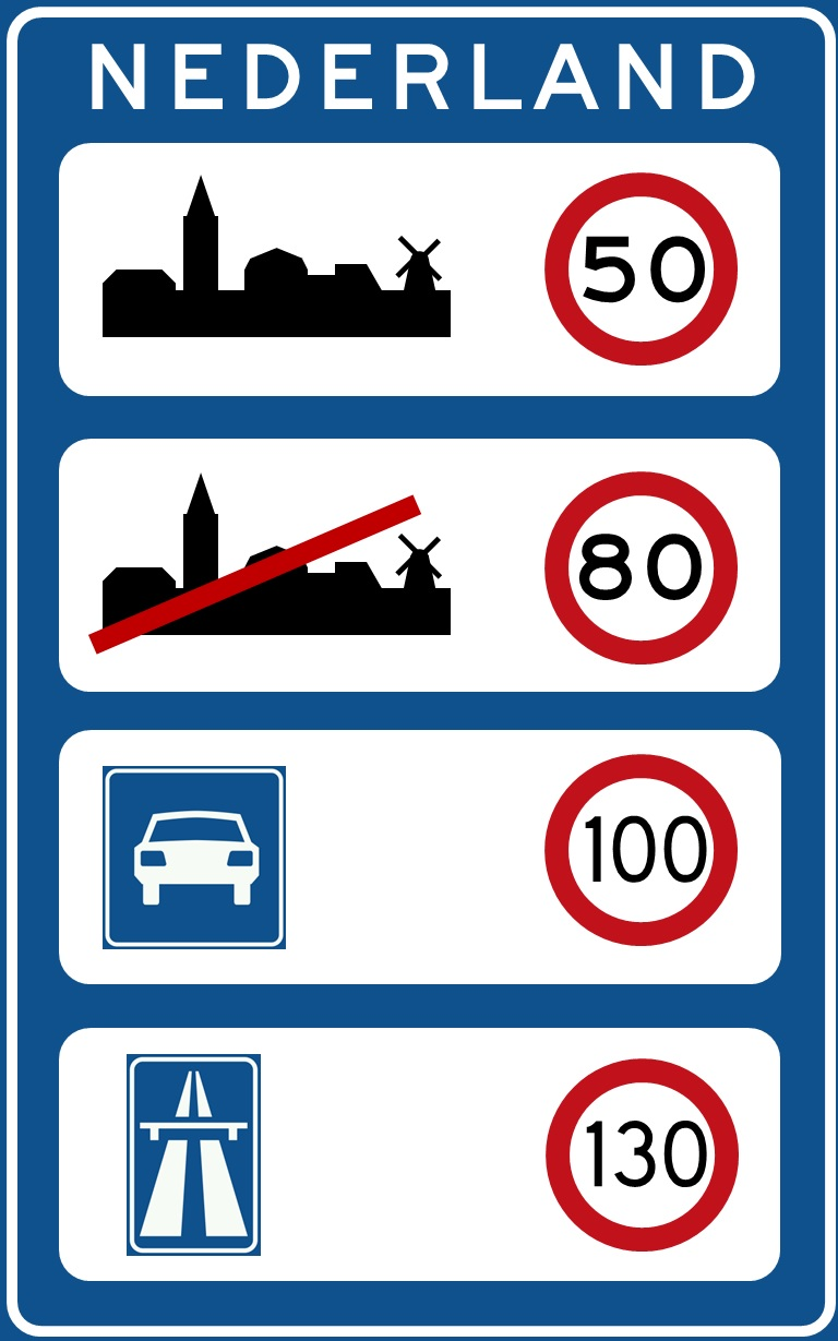 Roadsign with maximumspeed information, by the Dutch border